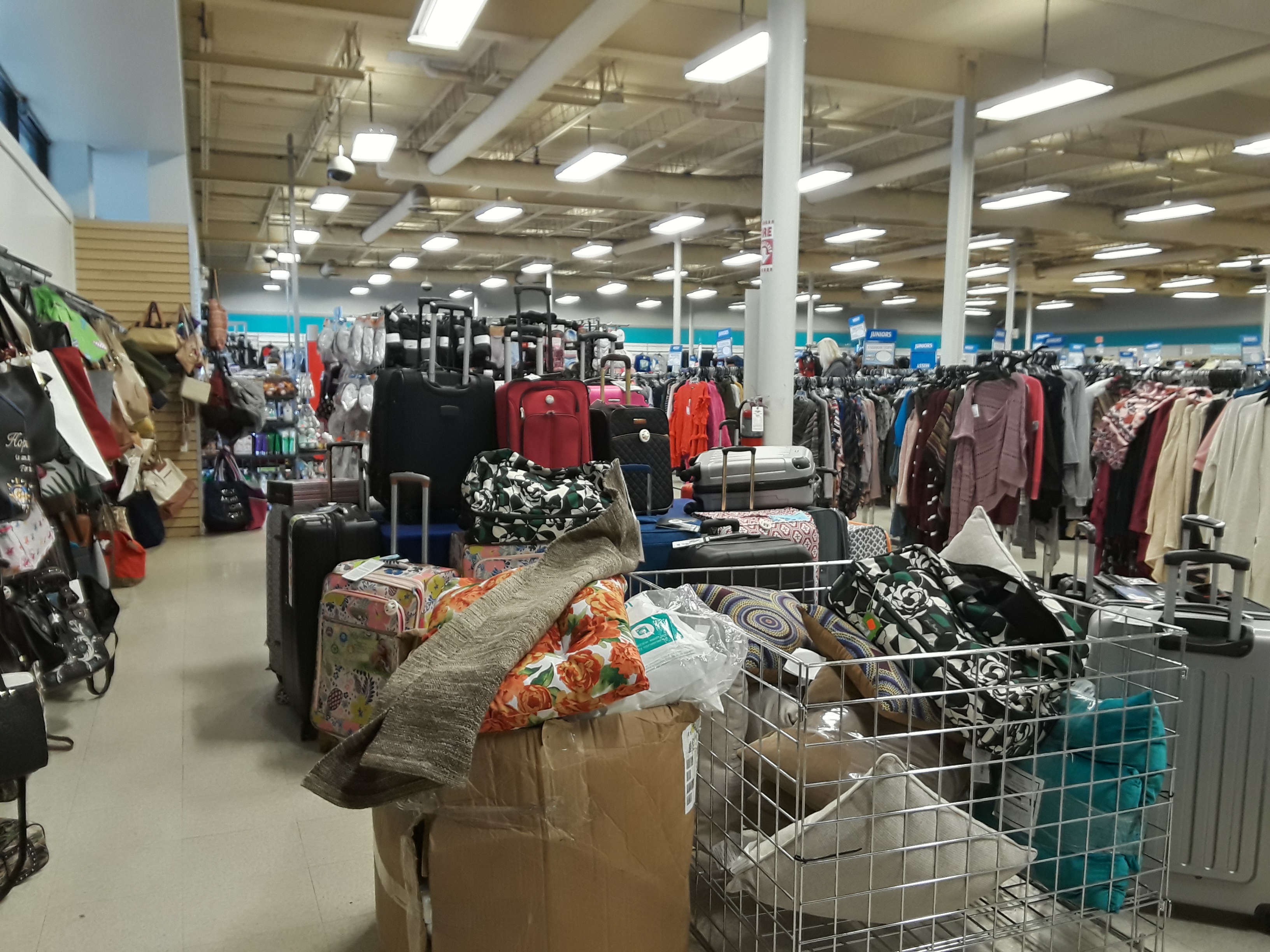 Gabe's, Rose Hill, Fairfax County, Virginia